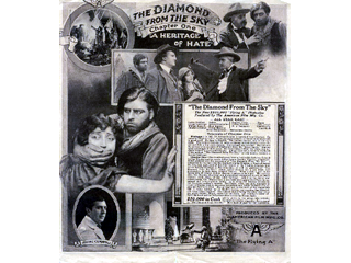 Newspaper portfolio Image of The Diamond from the Sky 1915 film. Source from film studies archives where it is the purpose to use such public domain pre 1923 silent film images for study.